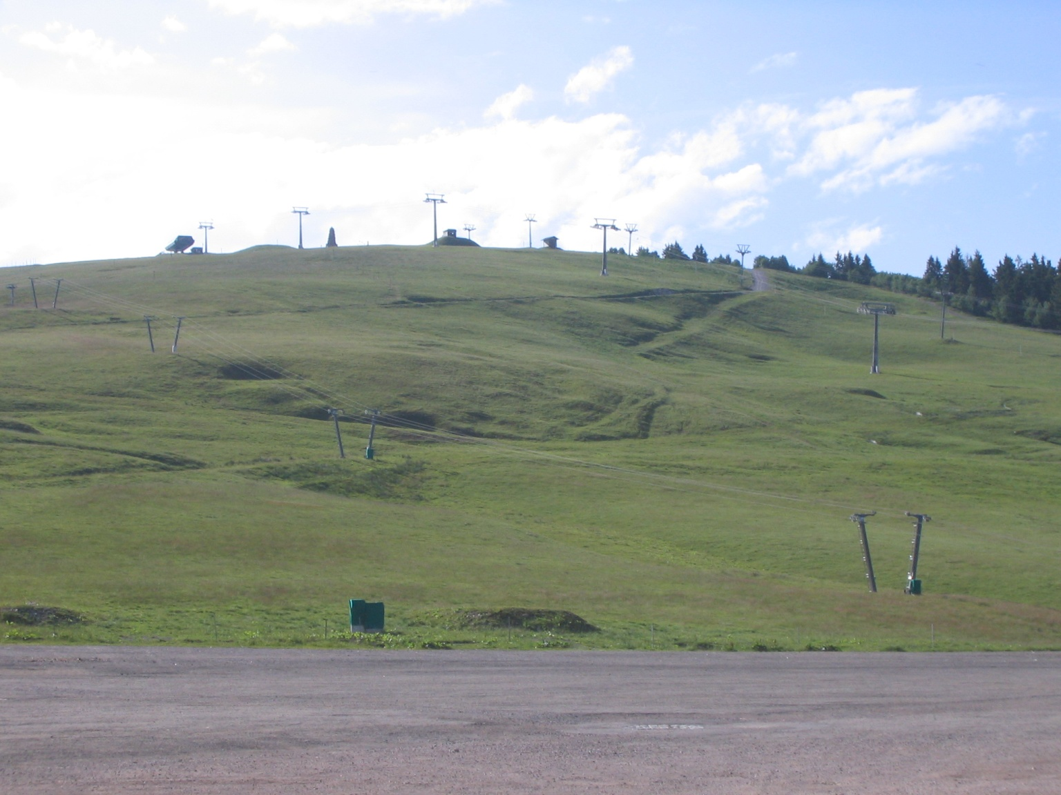 Top of the Seebuck (next to the Feldberg at the (Black Forest) with lift and chair-lift.